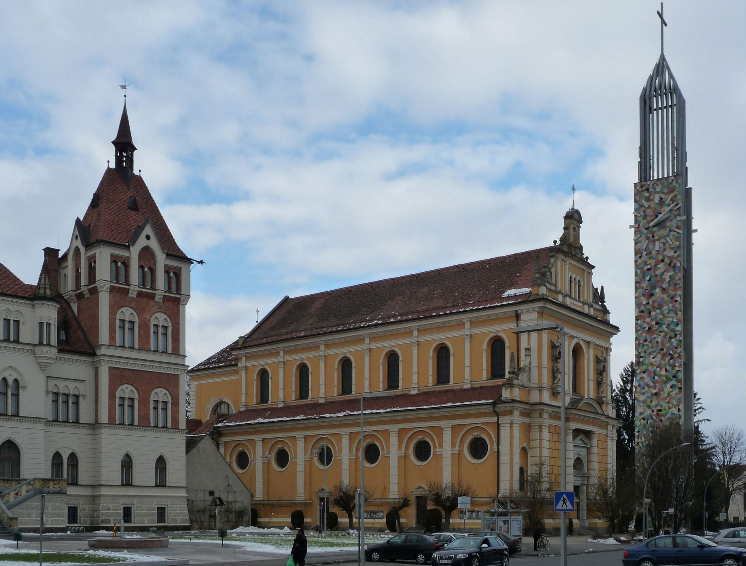 Parish Church in Feldbach, Styria